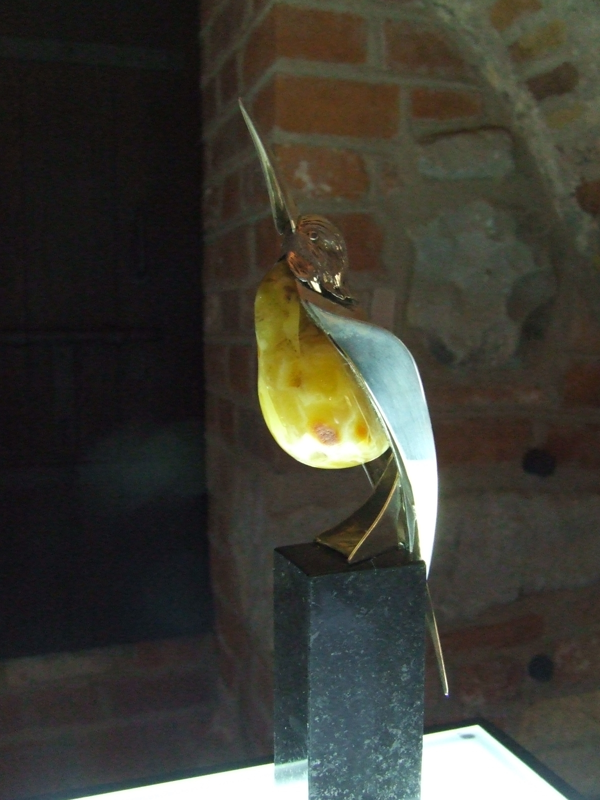 The "Amber nightingale", Amber Museum in Gdańsk.